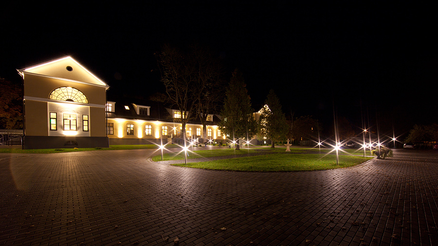 Skrundas muiža, Skats tumsā